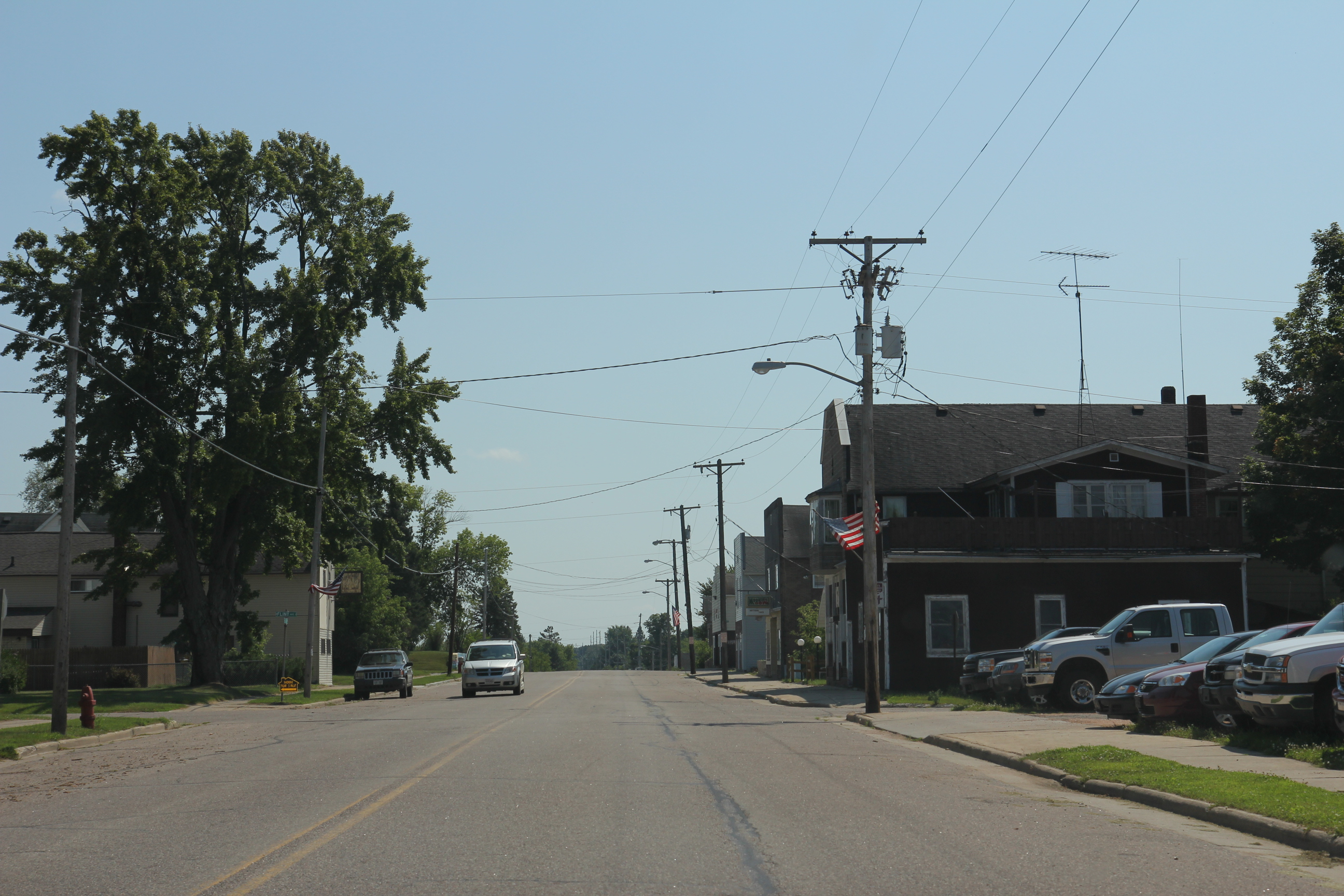 Downtown Mattoon, Wisconsin looking south